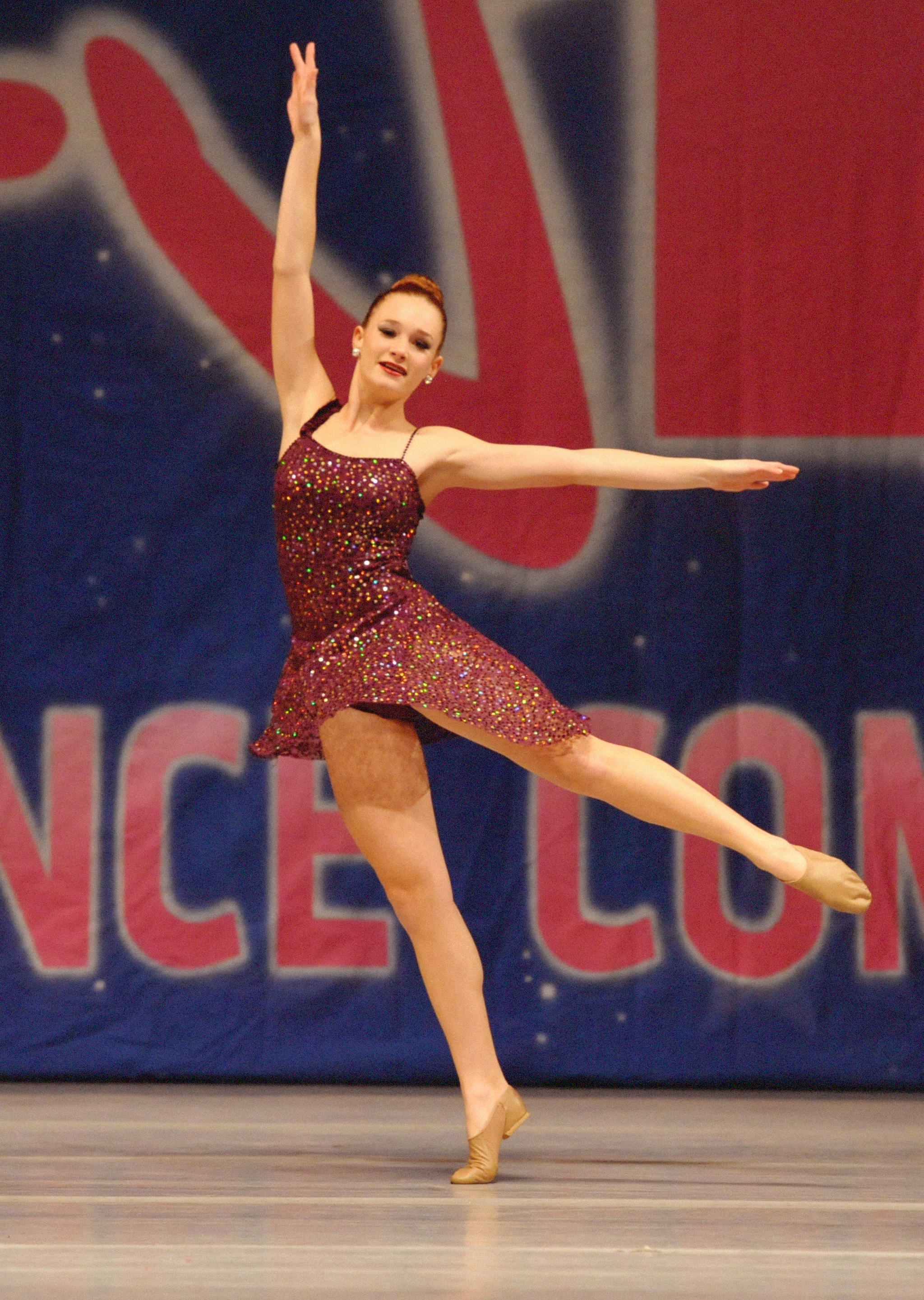 Ellie Darcey-Alden dances in the KAR: Kids Artistic Revue Long Beach Competition, Millikan High School, CA, 6-8 Feb. 2015